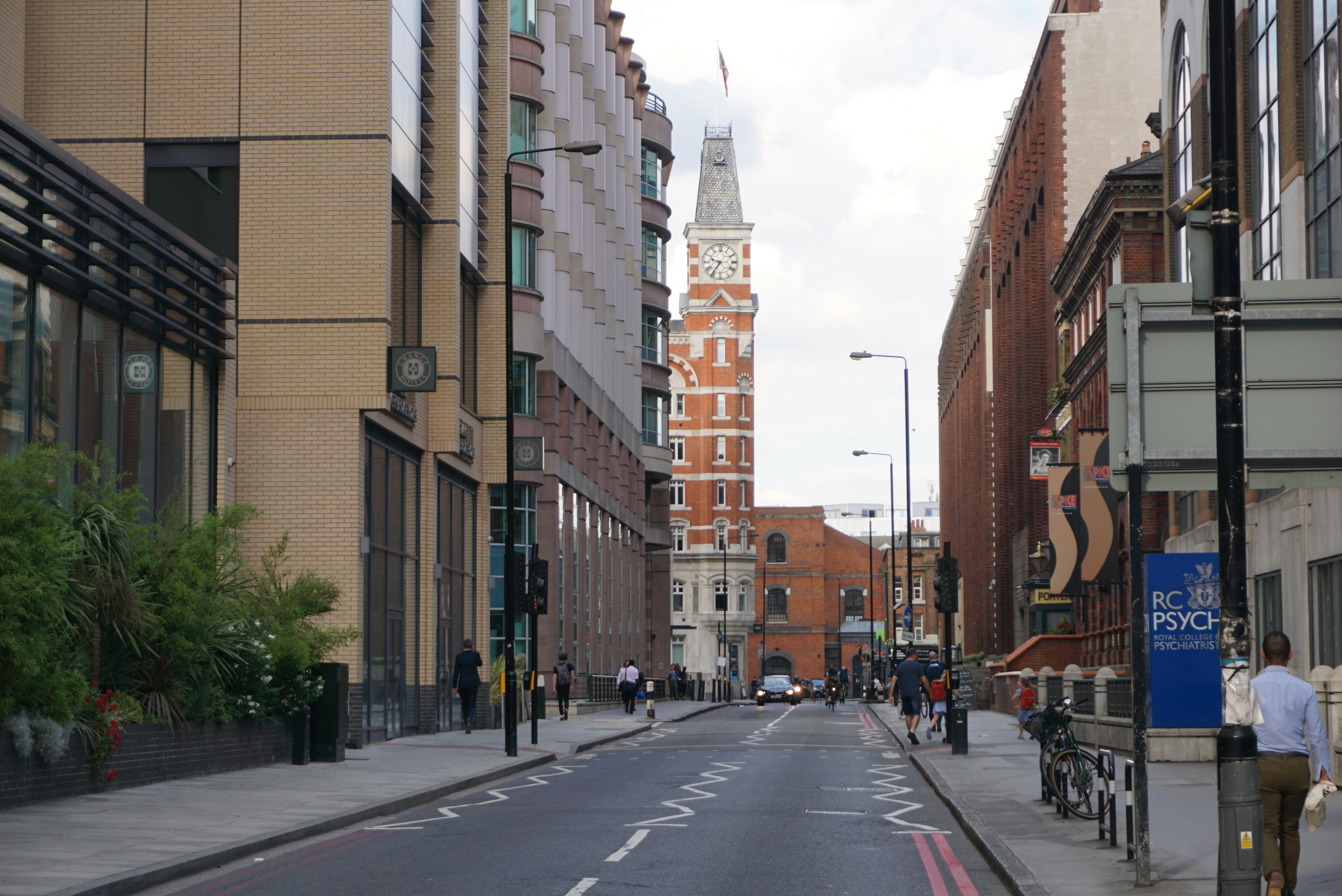 Prescot Street, City of London